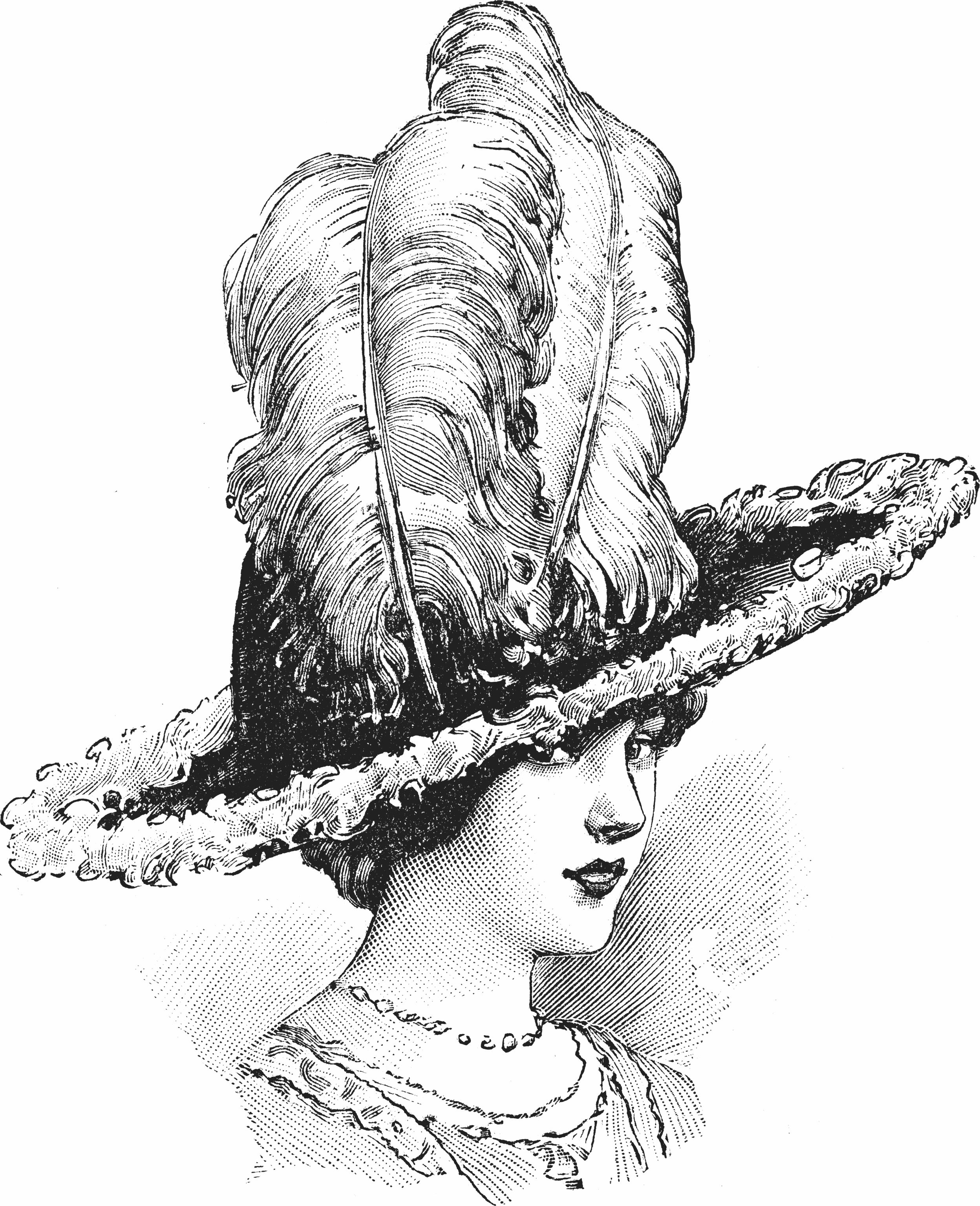 Ostrich-feather hat (just a few years before they went out of style) in 1911 catalog for 1912.